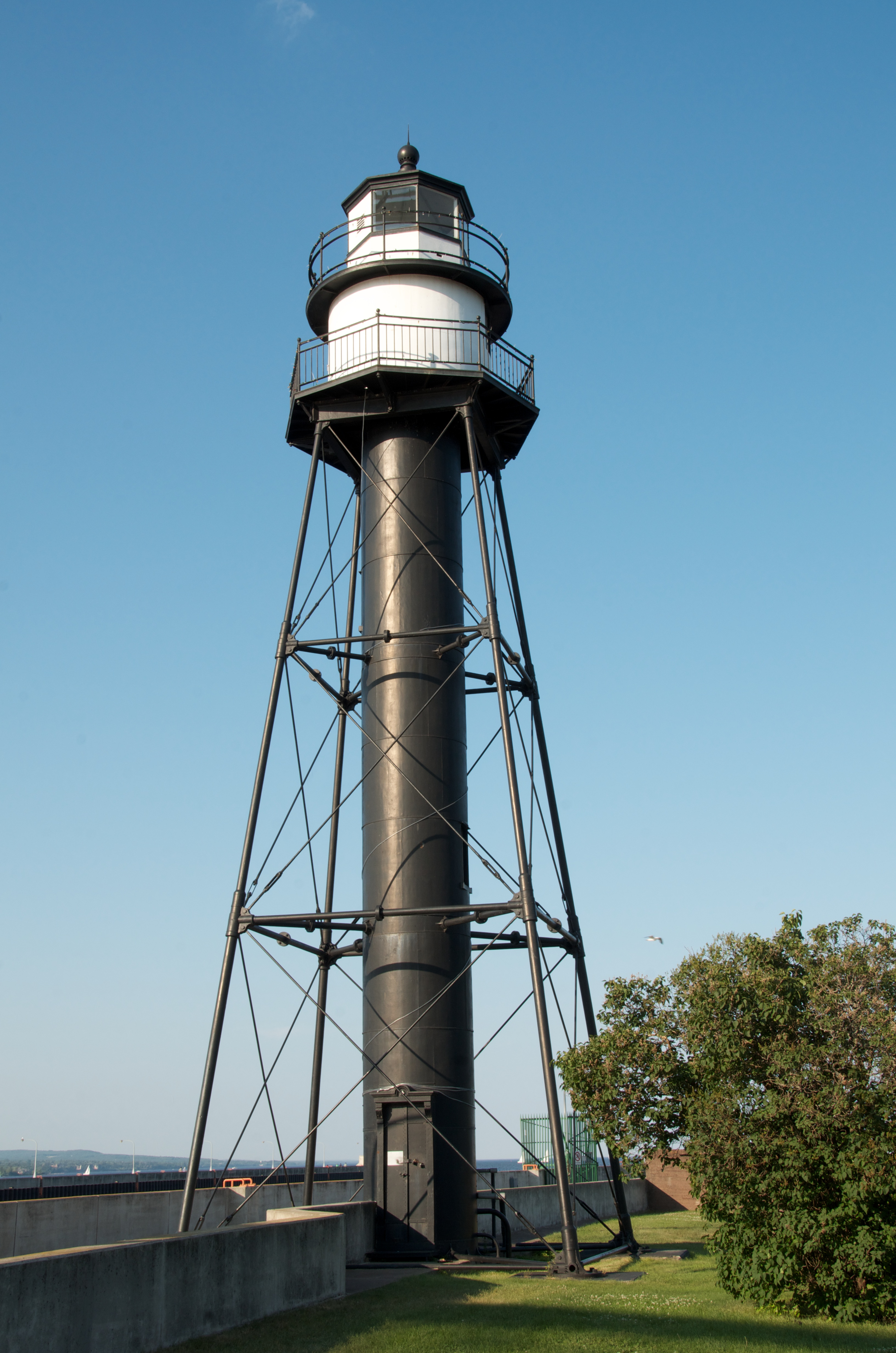 This is the tallest operating lighthouse in Duluth. It was completed in 1901. This lighthouse originally displayed a 4th order fresnel lens and which was rotated by a clockworks mechanism. That lens has been removed and is now on display in the Canal Park Marine Museum, which is adjacent to the Duluth ship canal. The lens currently being used is a plastic fresnel lens which is also rotated to produce a flashing white light. The purpose of this light was to help ships align themselves to the canal at night. If the white flashing range light can be seen directly above the steady green light of the lighthouse at the end of the same pier, then you know you are approaching the canal straight on. If the two lights are not seen one above the other, then you are not lined up with the canal. This lighthouse was sold in 2008 and is now in private hands, but it is still active as an aid-to-navigation.